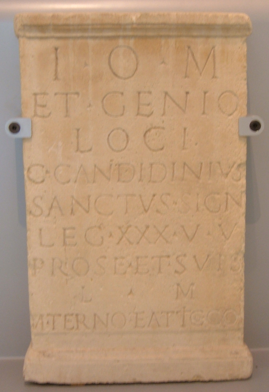 Votive inscription to Jupiter Optimus Maximus and the Genius loci by Caius Candidinius Sanctus, Signifer of Legio XXX Ulpia Victrix on behalf himself and his own (legion) during the consulate of Maternus and Atticus (185 AD). Museum Het Valkhof, Nijmegen, the Netherlands. CIL XIII, 8719 Museum Het Valkhof Native nameMuseum Het ValkhofLocationNijmegen Address Kelfkensbos 596511 TB NijmegenNetherlandsCoordinates51° 50′ 47″ N, 5° 52′ 16″ E Established1999Web page control : Q1127079 VIAF: 158715438 ISNI: 0000 0004 0533 6734 LCCN: no2002025807 GND: 5519052-2 SUDOC: 075891700 WorldCat institution QS:P195,Q1127079